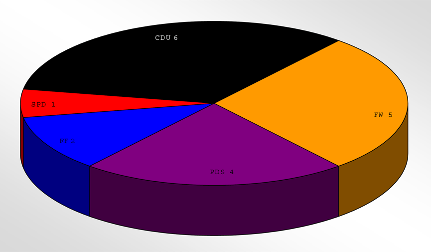 This image shows the results of the city council vote in Reinsdorf (Saxony, Germany), 2004. The source of the values is